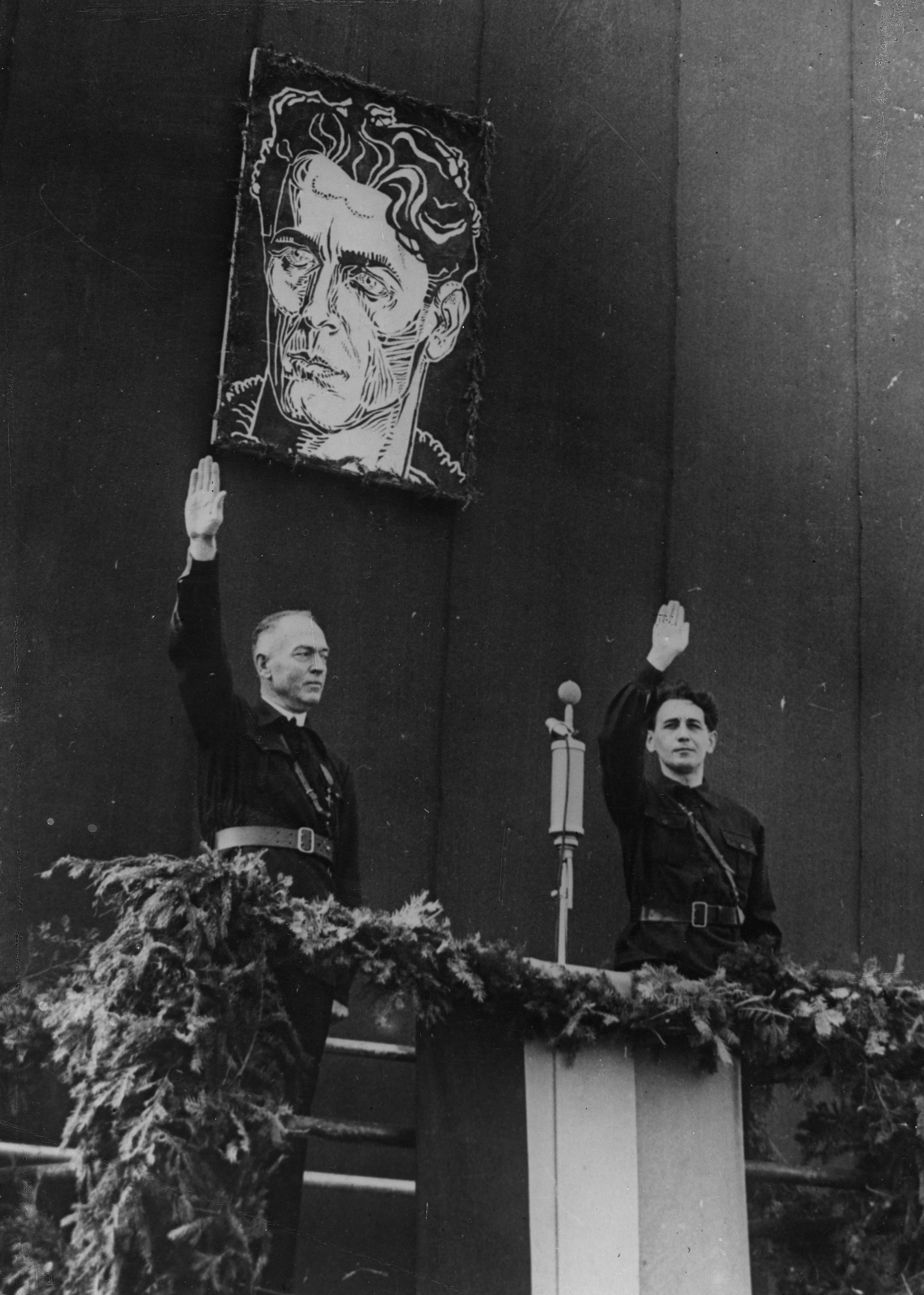 Romanian general Ion Antonescu, conducator of the nation, next to Iron Guard leader and vicepremier Horia Sima in a tribute to Iron Guard founder Corneliu Zelea Codreanu, October 1940. A large picture of Codreanu is visible in the background, above both of them